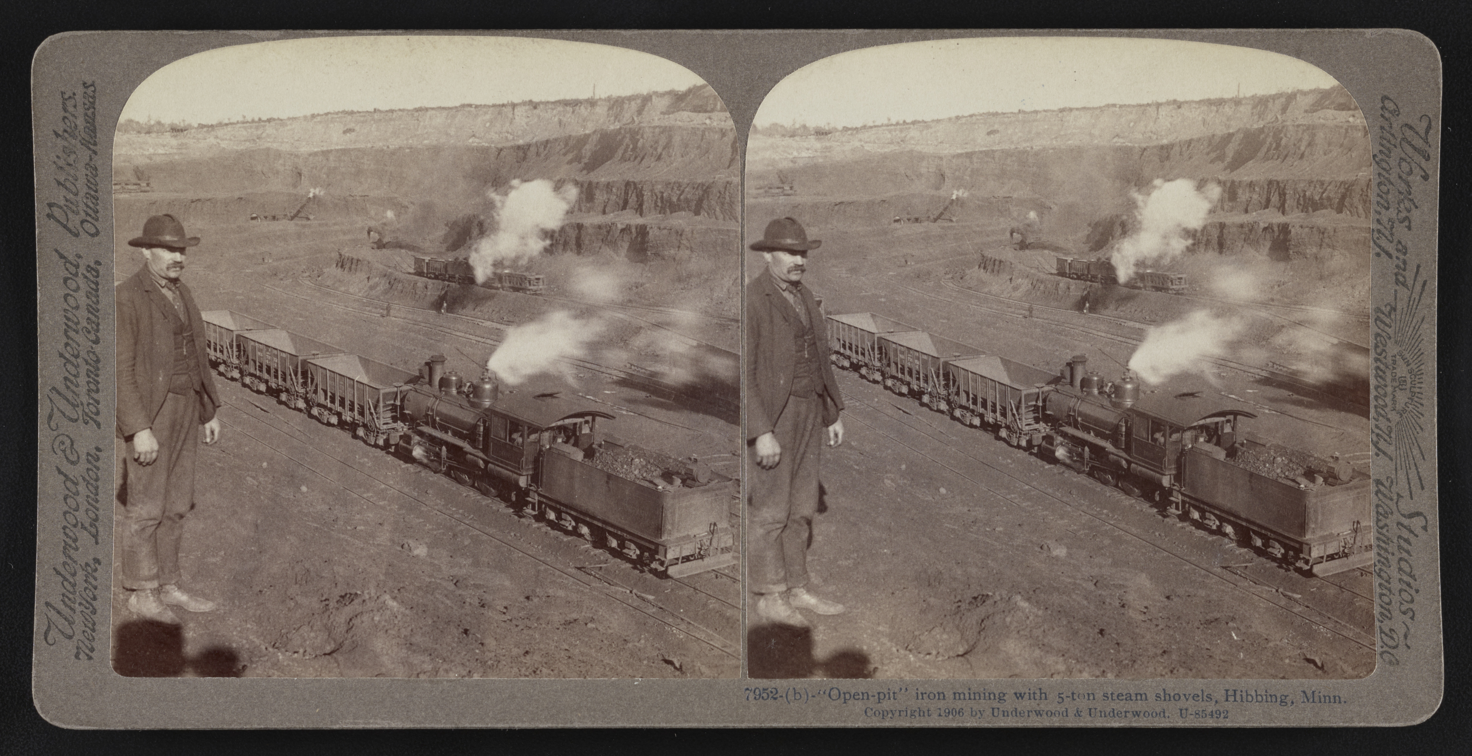 Open-pit iron mining with 5-ton steam shovels, Hibbing, Minnesota. Man standing on hill in left foregrd.; railroad train below.